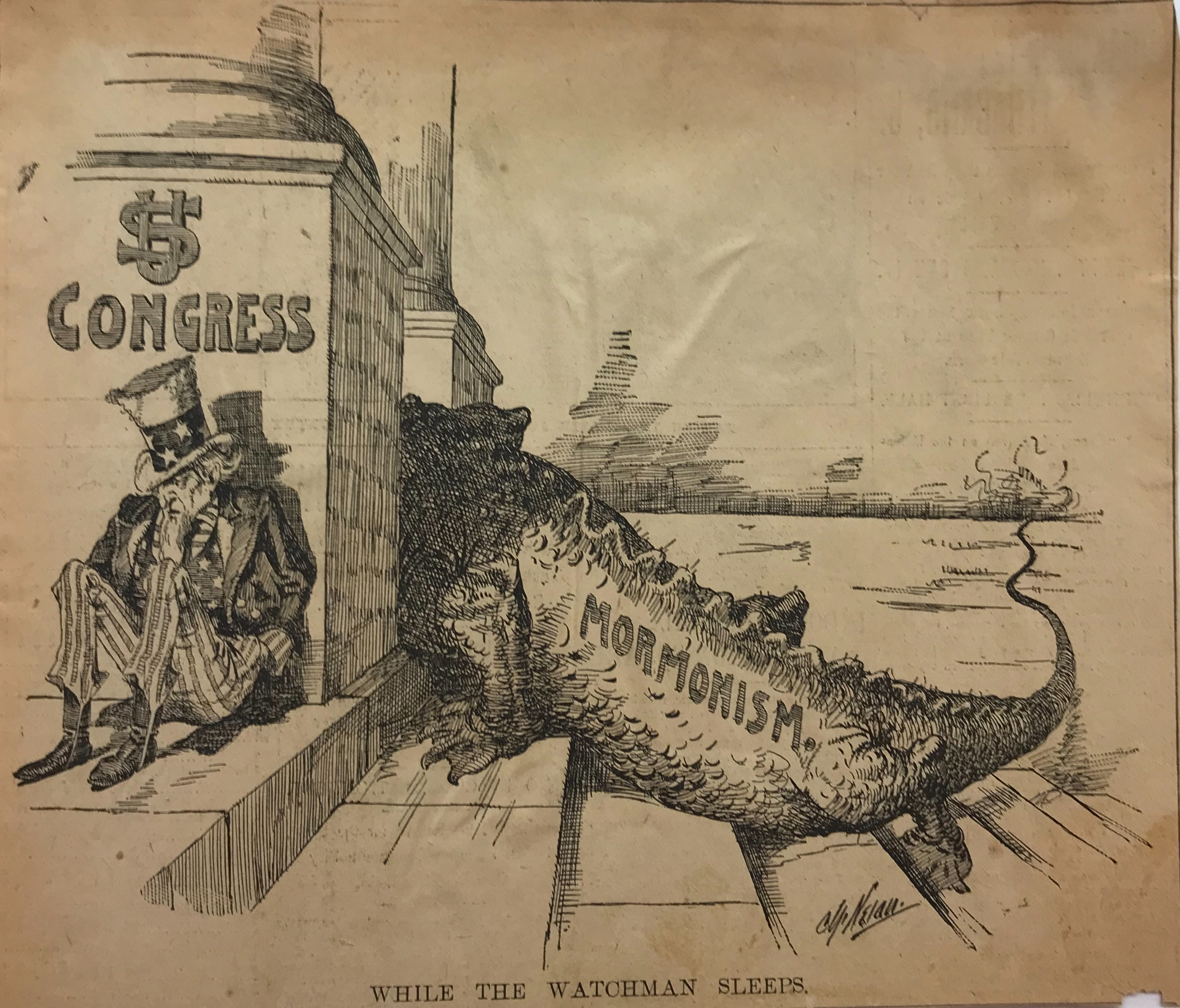 The Ohio State University, Columbus, United States, October 2018